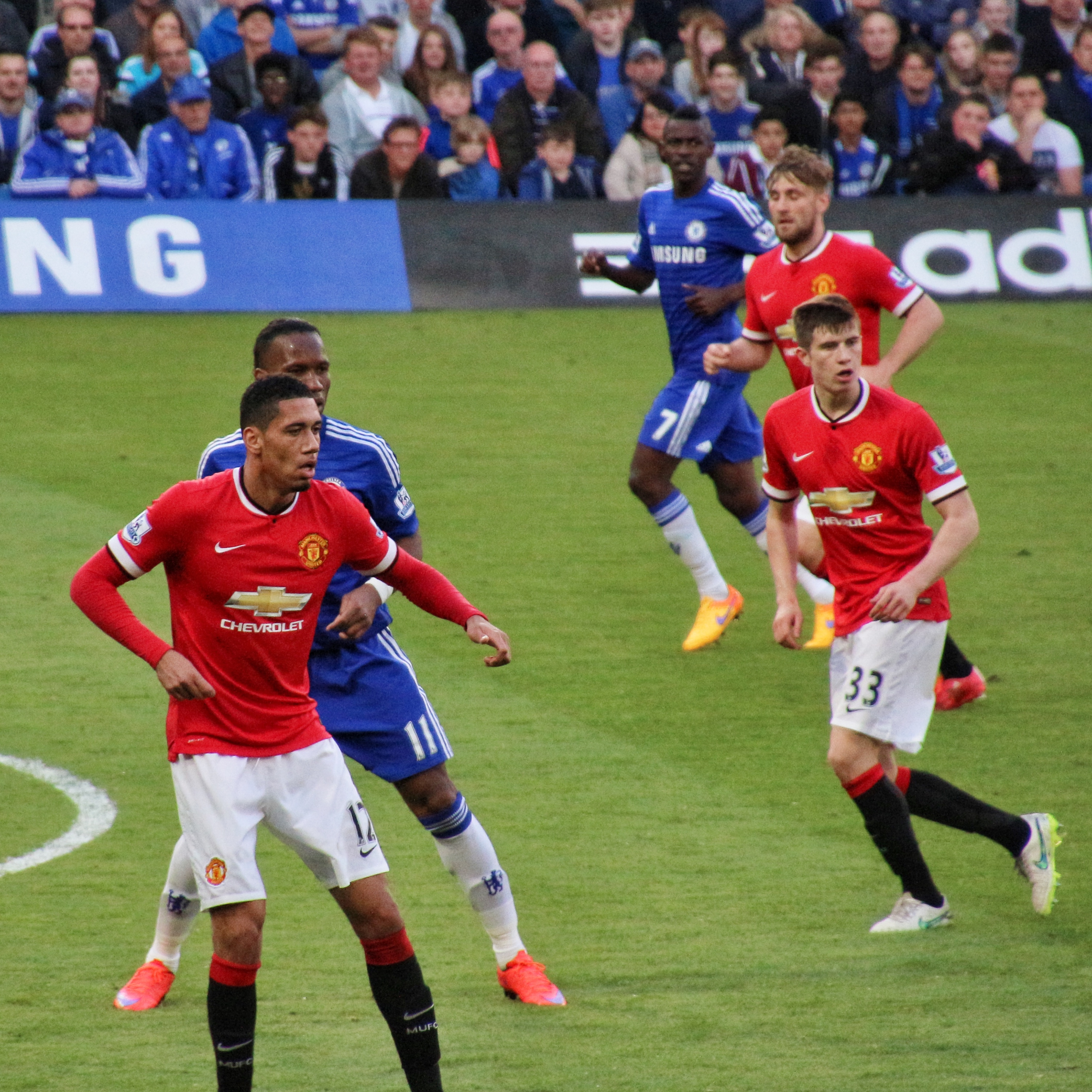 Chelsea 1 Man Utd 0